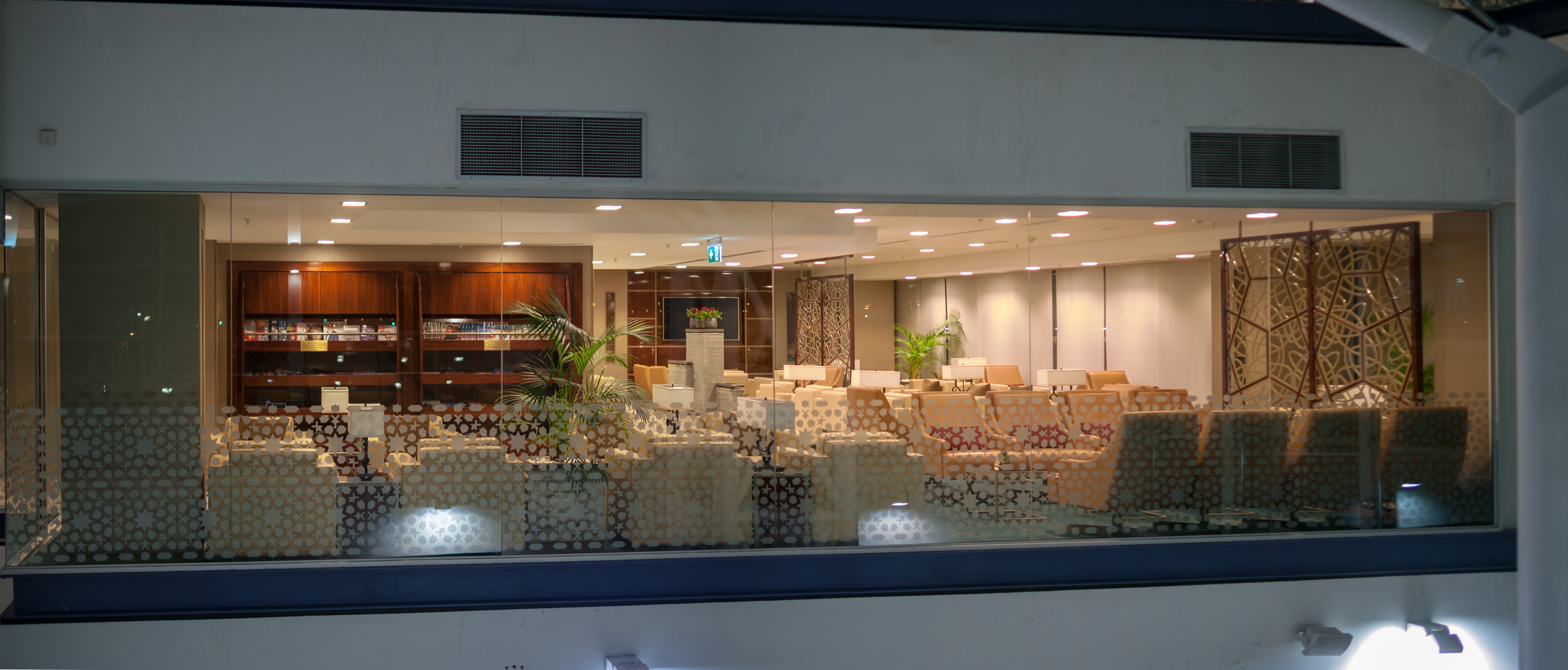 Emirates Lounge, Cape Town Airport